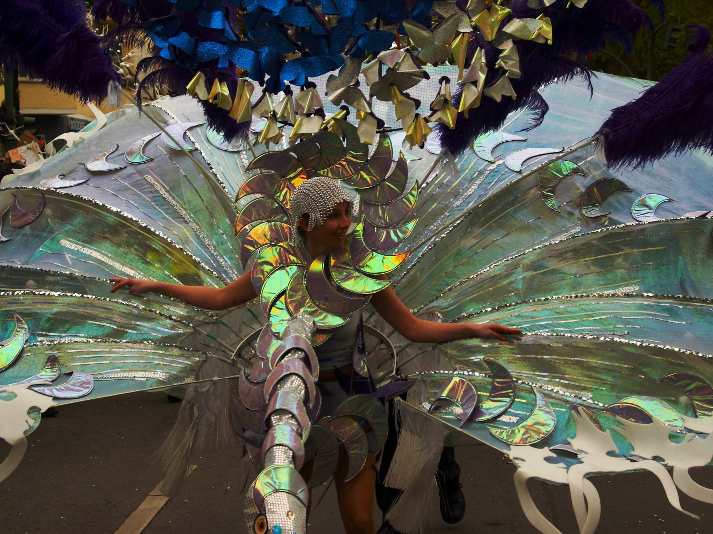 Carnival of cultures, Berlin May 2005 Karneval der Kulturen in Berlin